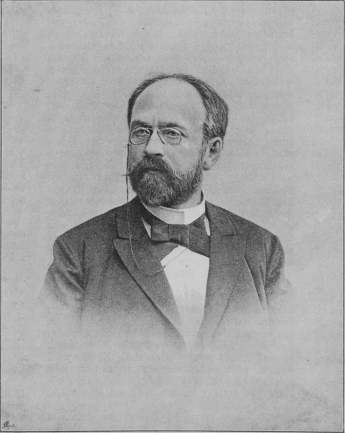 Portrait of Josef Reinsberg (1844–1930), Czech medical doctor and professor at the university in Prague